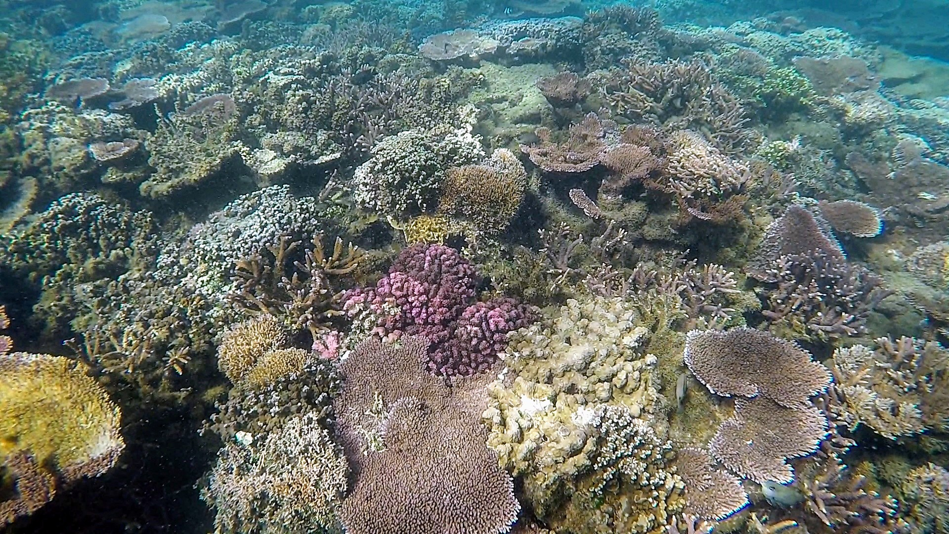 Samoa